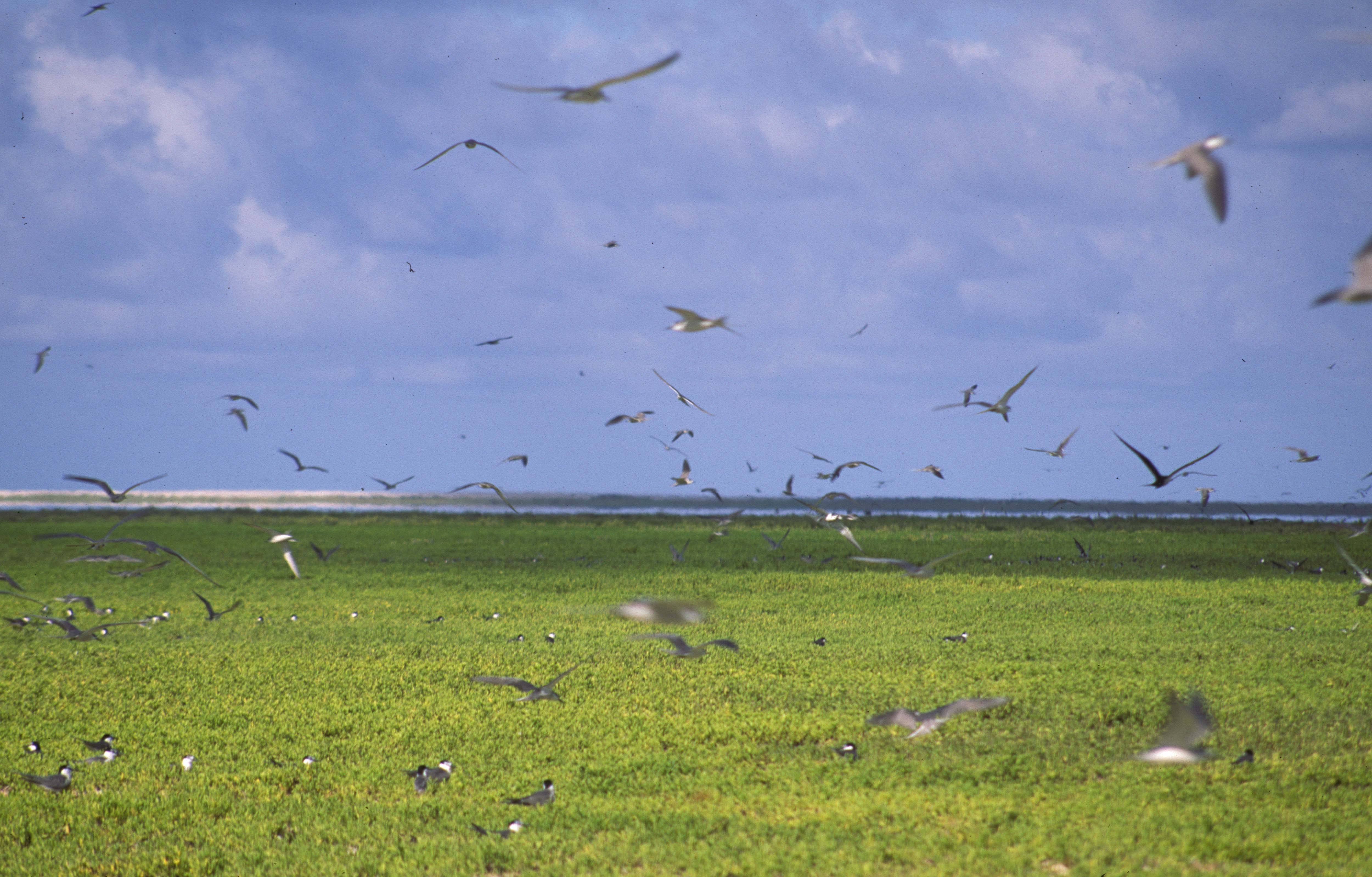 Grey backed terns (Onychoprion lunatus) flying over Malden Island, Line Islands, Kiribati.